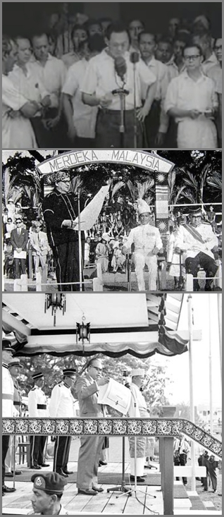 A composite images of the formation of Malaysia history: Upload by Muffin Wizard Upload by Muffin Wizard Upload by Muffin Wizard